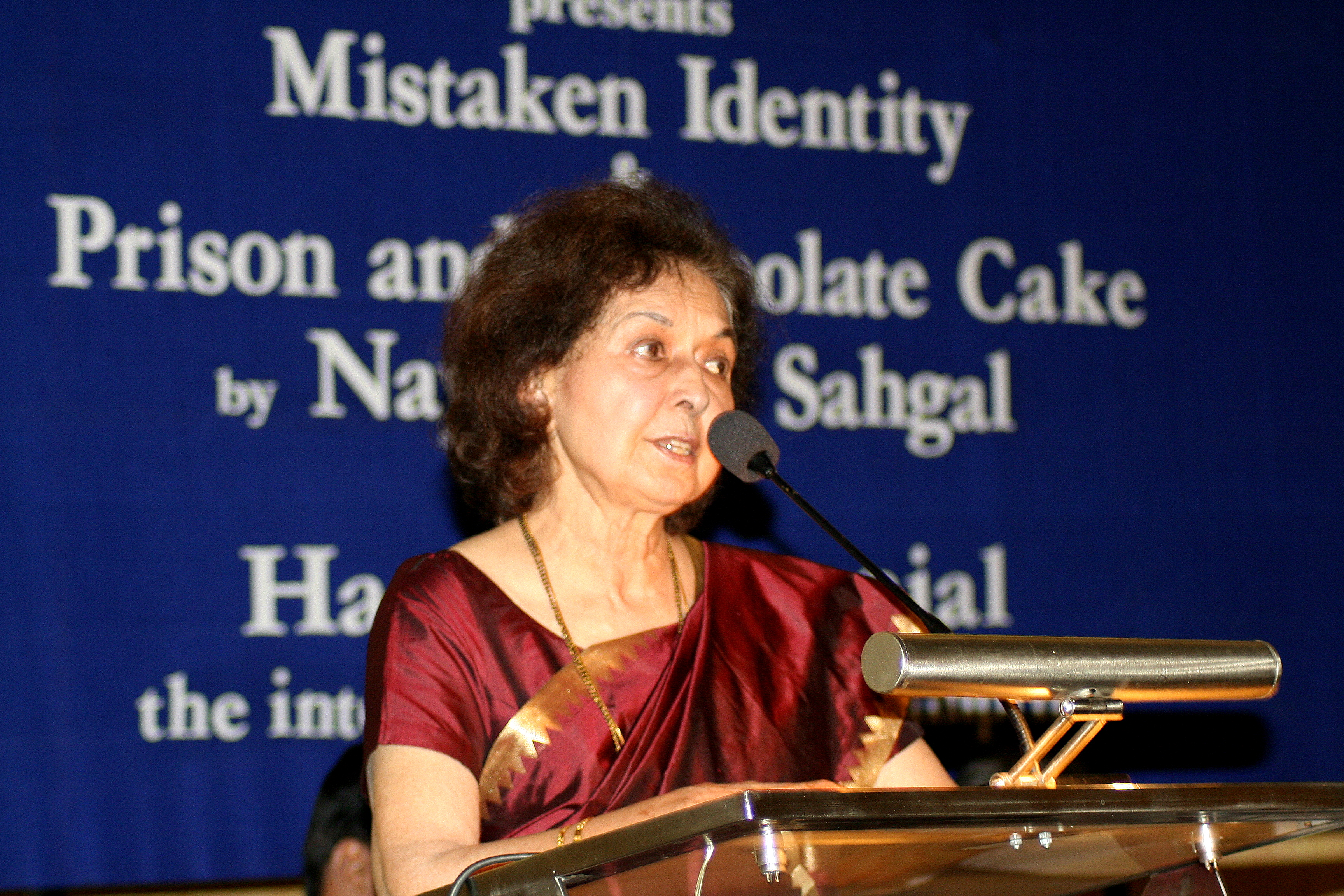 Mistaken Identity by Nayantara Sahgal was launched by Harperperenial in Delhi on 30.11.07.The jacket has photograph taken by me. She is speaking on this occasion.